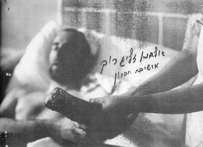 Elhanan Zelig Roch, a student at the Hebron Yeshiva, lost his hand in the attack against the towns Jews in 1929.